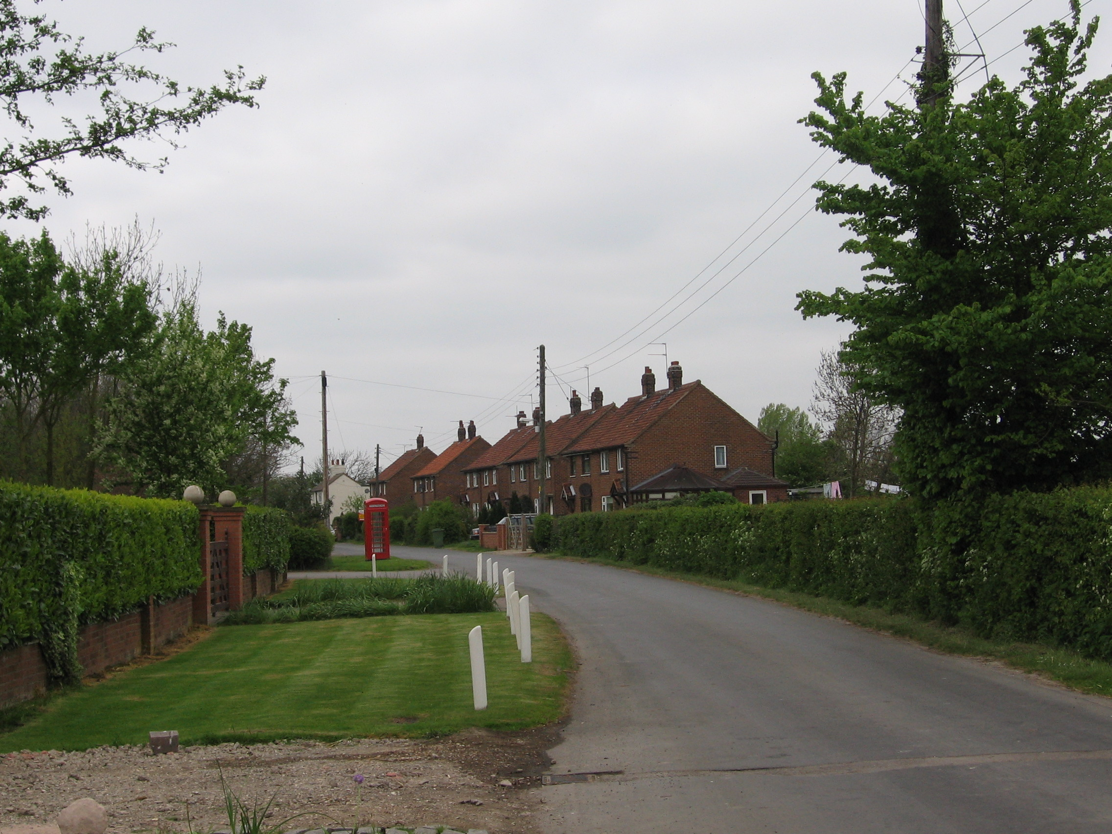 Arram, East Riding of Yorkshire, England. Photo taken by me on 06 May 2007